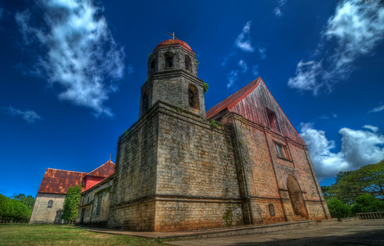 On life's journey faith is nourishment, virtuous deeds are a shelter, wisdom is the light by day and right mindfulness is the protection by night. If a man lives a pure life, nothing can destroy him.